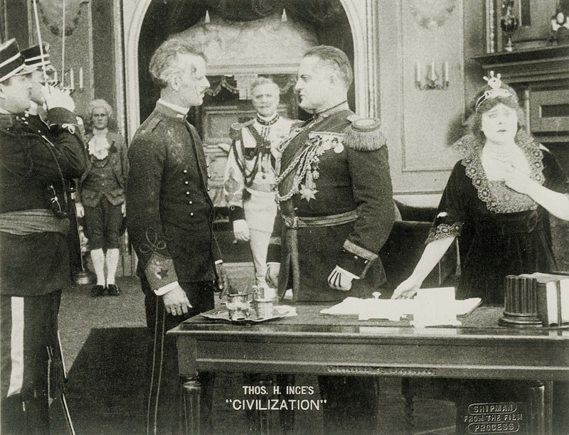 L. to R. : Howard C. Hickman (wounded), Charles K. French, Herschel Mayall, and Lola May in Civilization (1916) - cropped screenshot